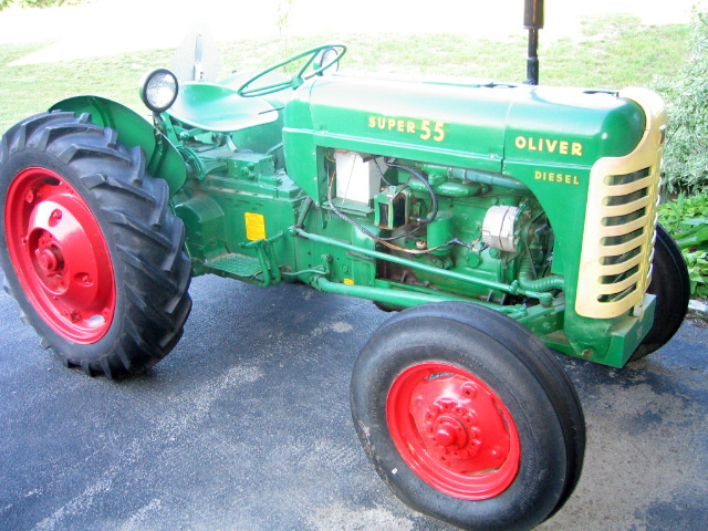 1956 Oliver Super 55 Diesel tractor. The Super 55 was available with either a gas or diesel engine. Both versions of the Super 55 featured wide front ends. The Super 55 was eventually replaced with the mechanically similar, but cosmetically different Oliver 550. The Oliver Super 55 competed with the Ford utility tractors such as the Ford 8N and NAA models.